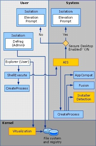 UAC architecture